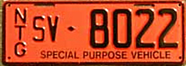 Australia_northern_territory_licenseplate